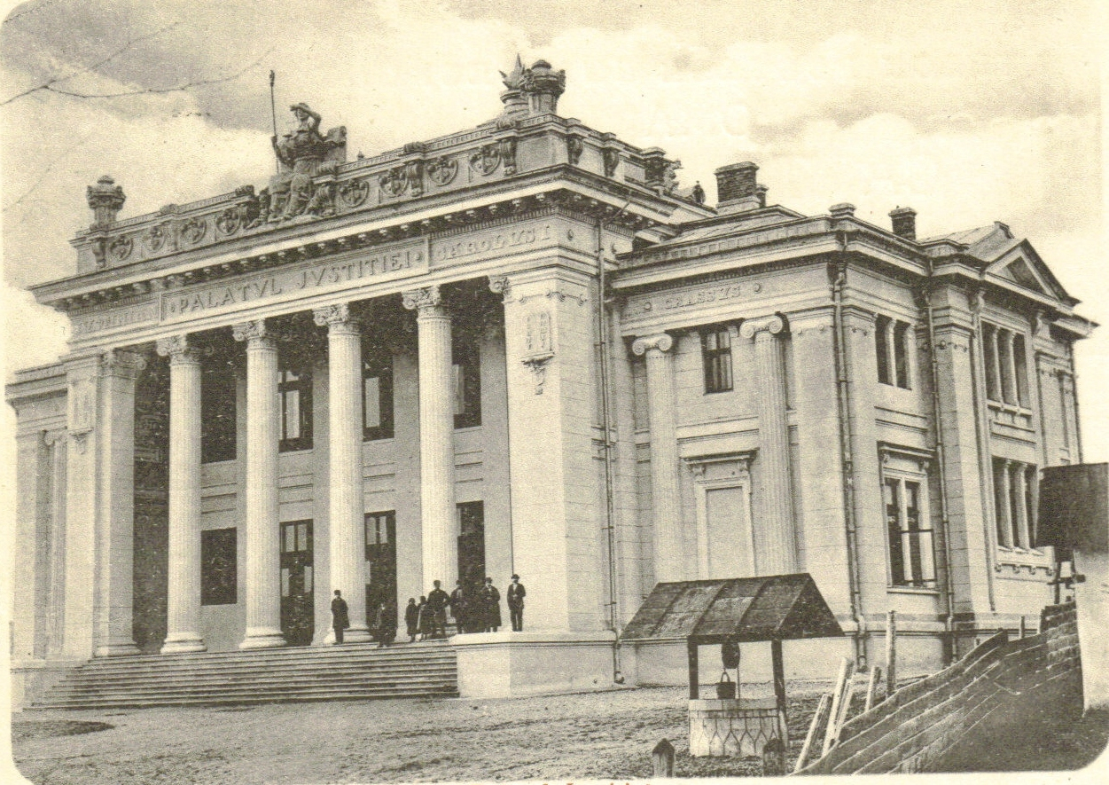 Palace of Justice in Caracal, Romania. The historical building was built in 1897.